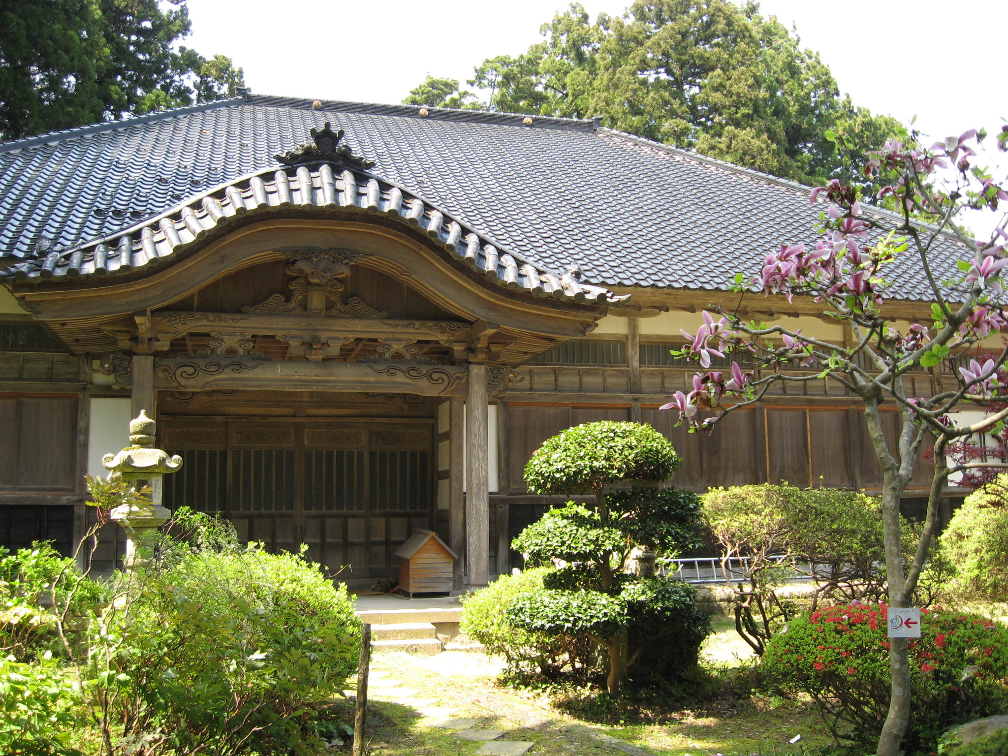 This is Yama no Tera temple, in Nanao city, Ishikawa prefecture, Japan. It was taken by Craig Lont on May 3rd, 2010.